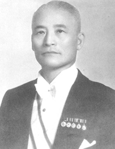 Forigen Minister of South Korea, Kim Hong-il